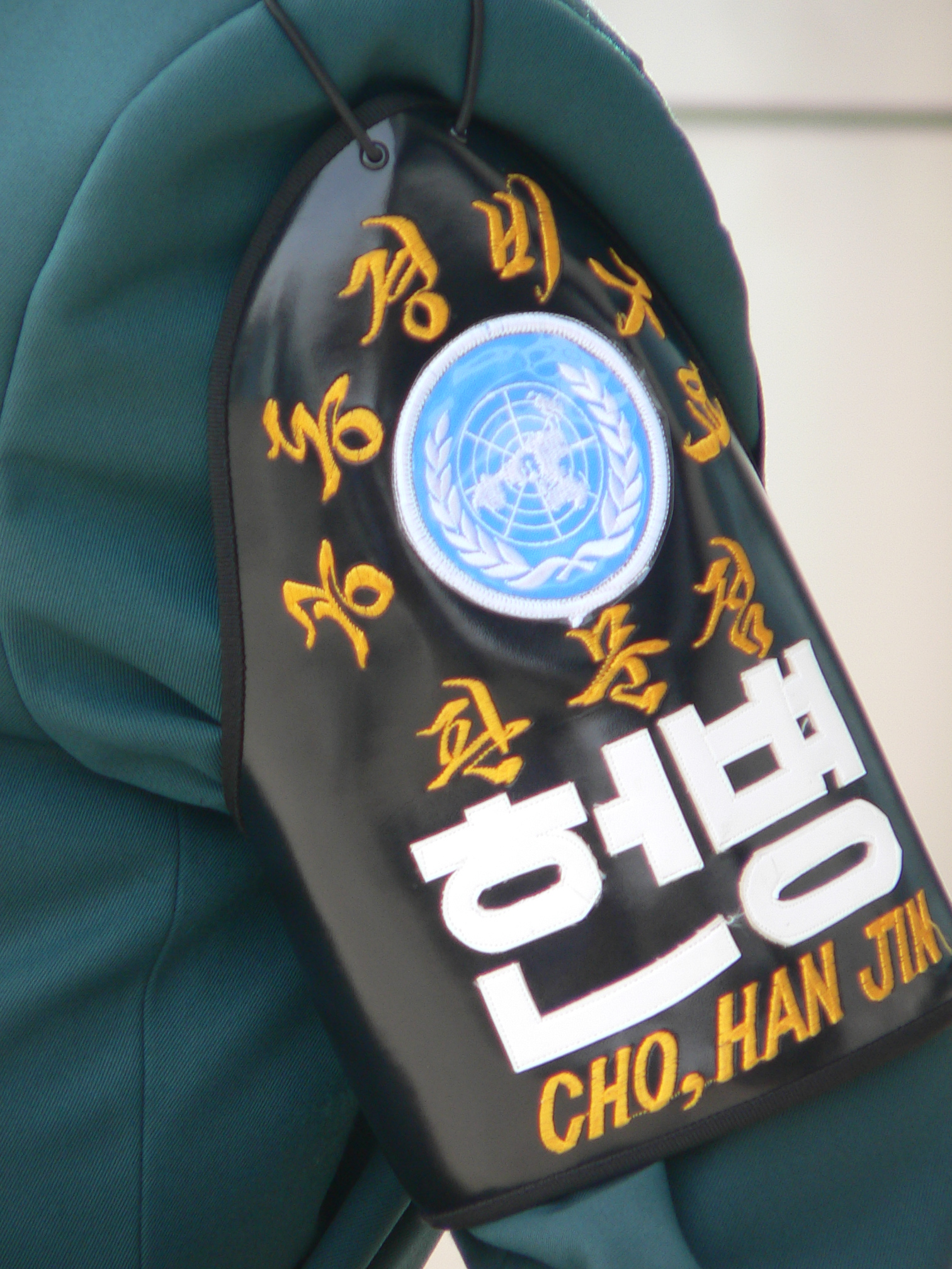 Photo of a KDMZ soldier's arm band.